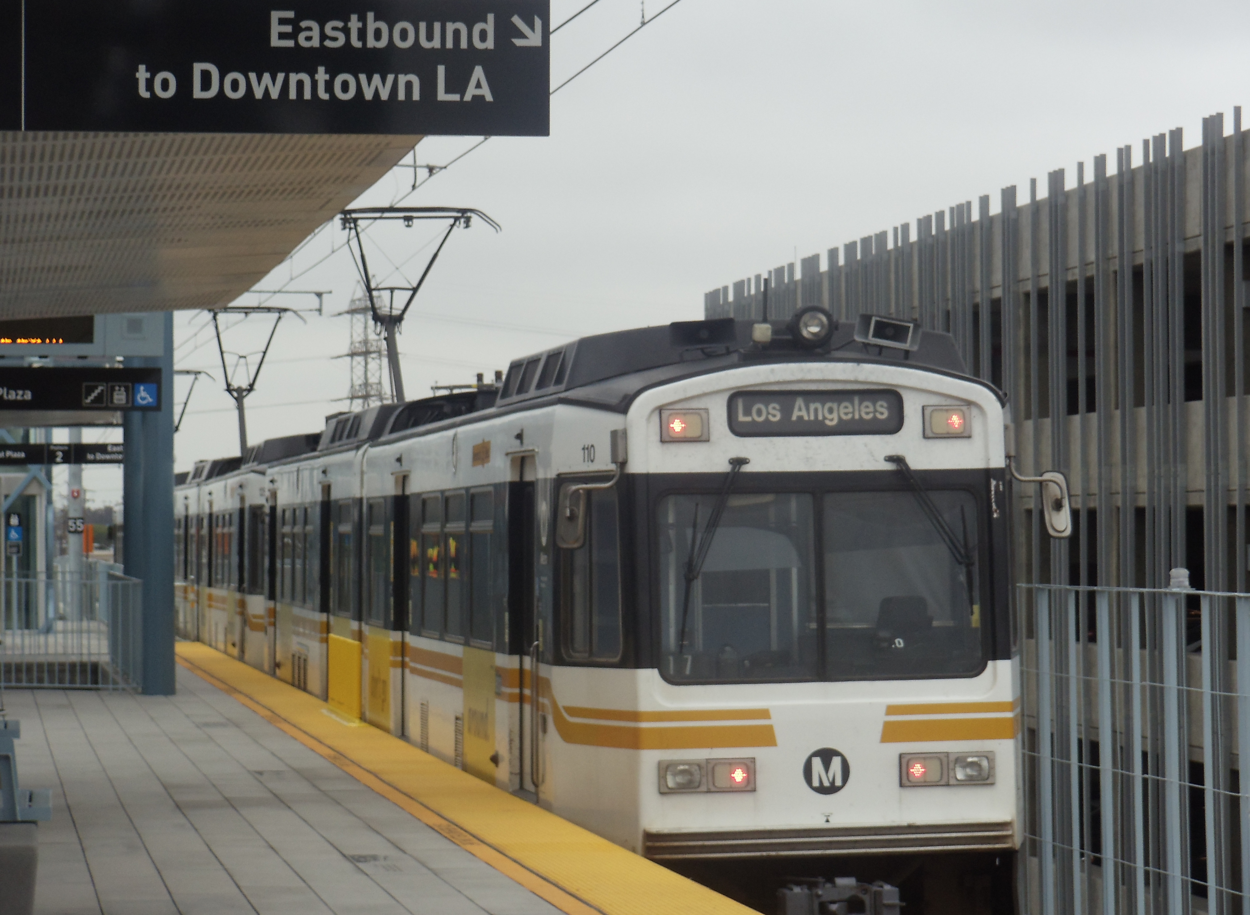 Train leaving to Downtown LA.